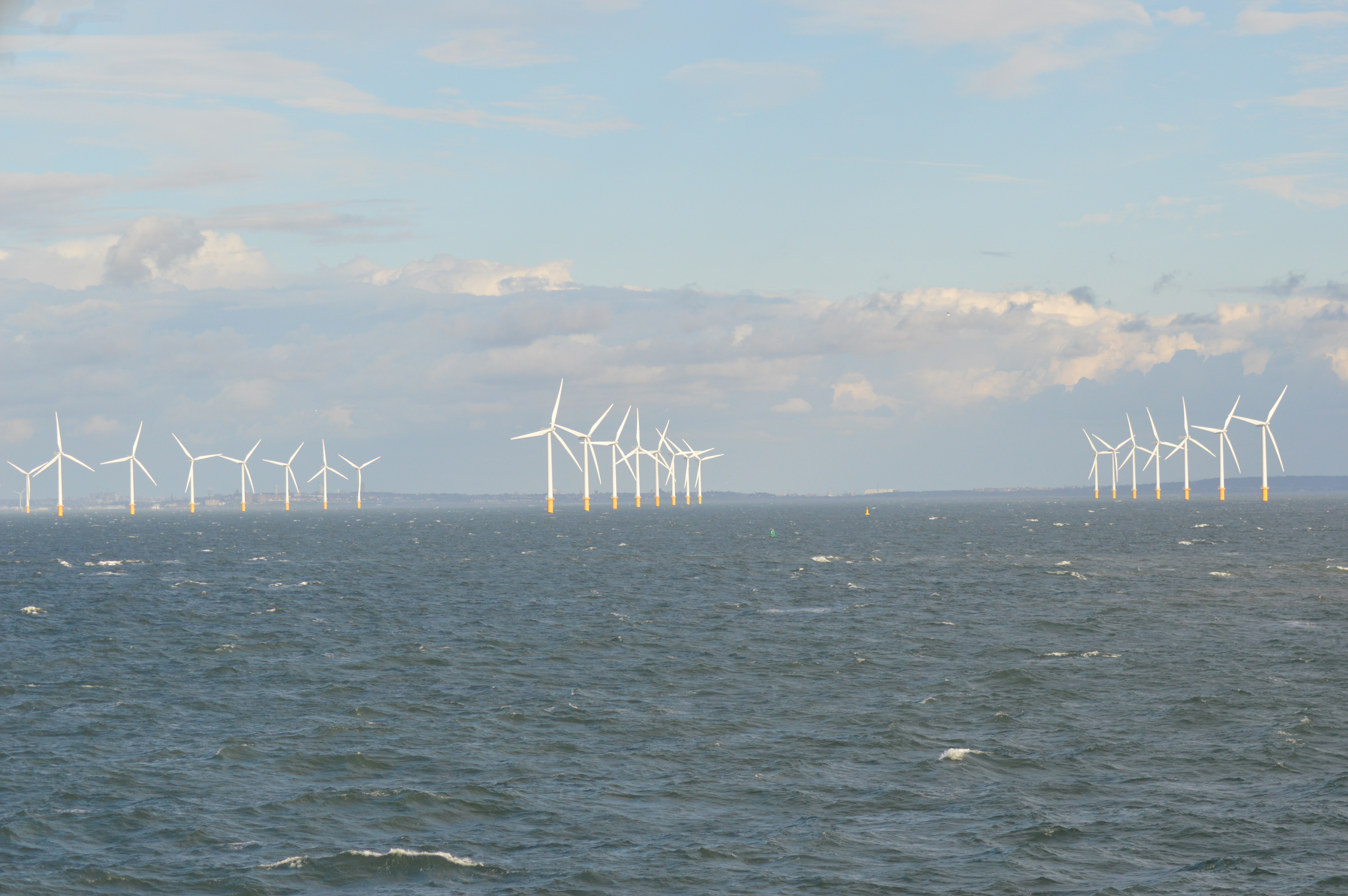 Burbo Bank Offshore Windfarm with North Wales behind